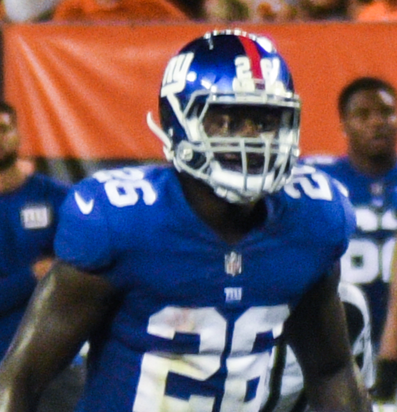 Cleveland Browns vs. New York Giants